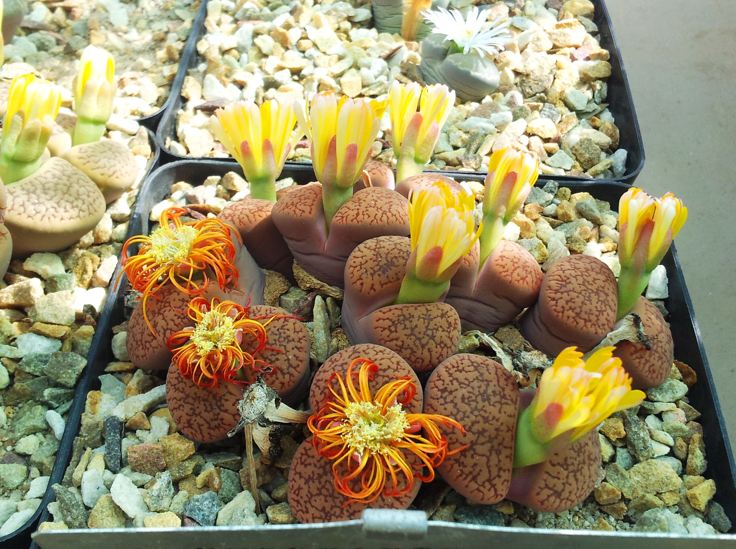 Lithops aucampiae var koelemanii